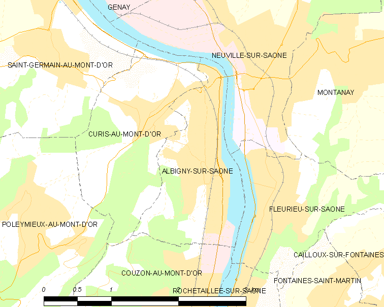 Map of French municipality